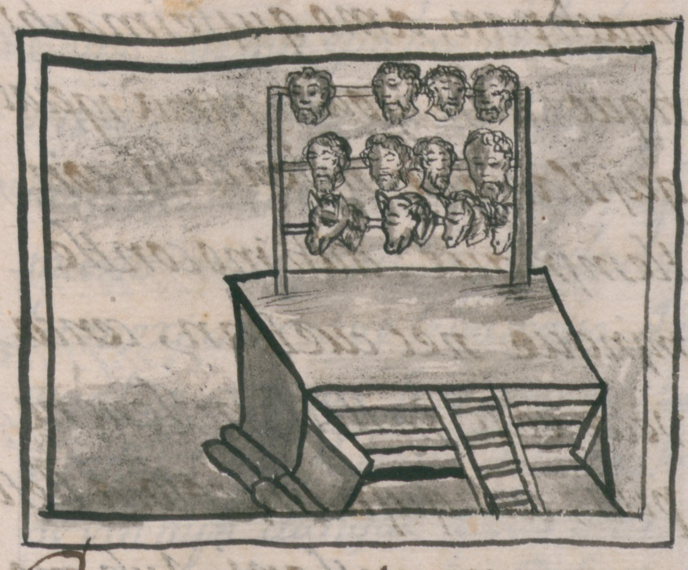 This image depicts a skull rack the heads of captured Spanish soldiers and their horses in front of the Temple of Huitzilopochtli